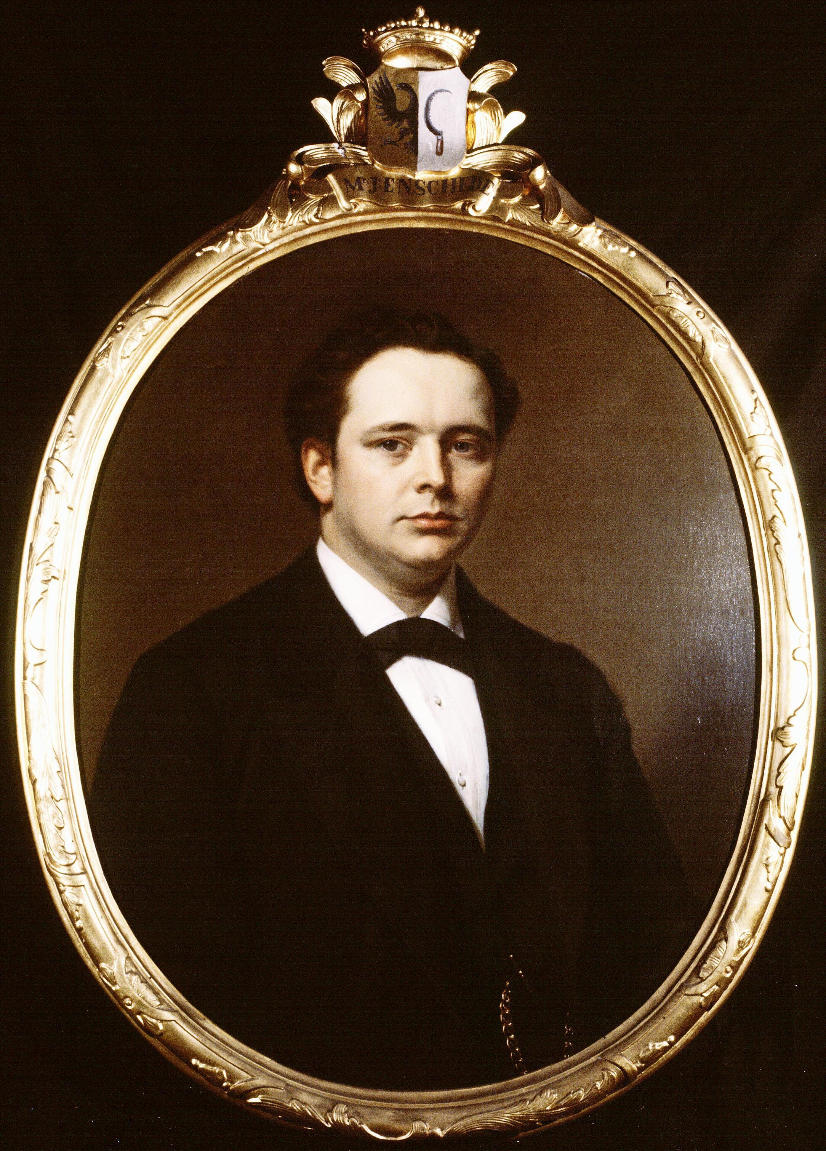 Johannes IV Enschede (1811-1878)